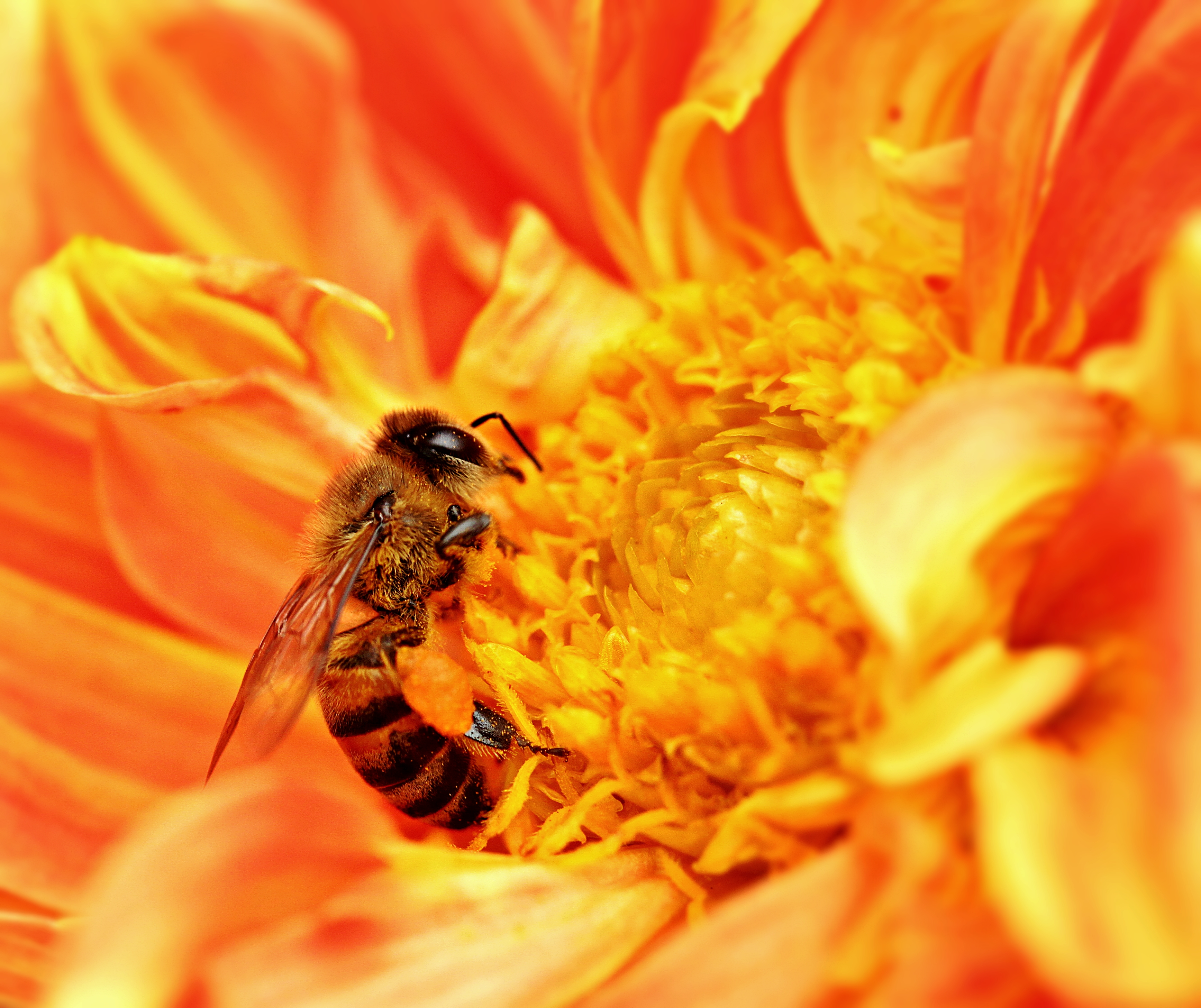 A Honey Bee takes nectar from a flower as pollen grains stick to its body in Tanzania